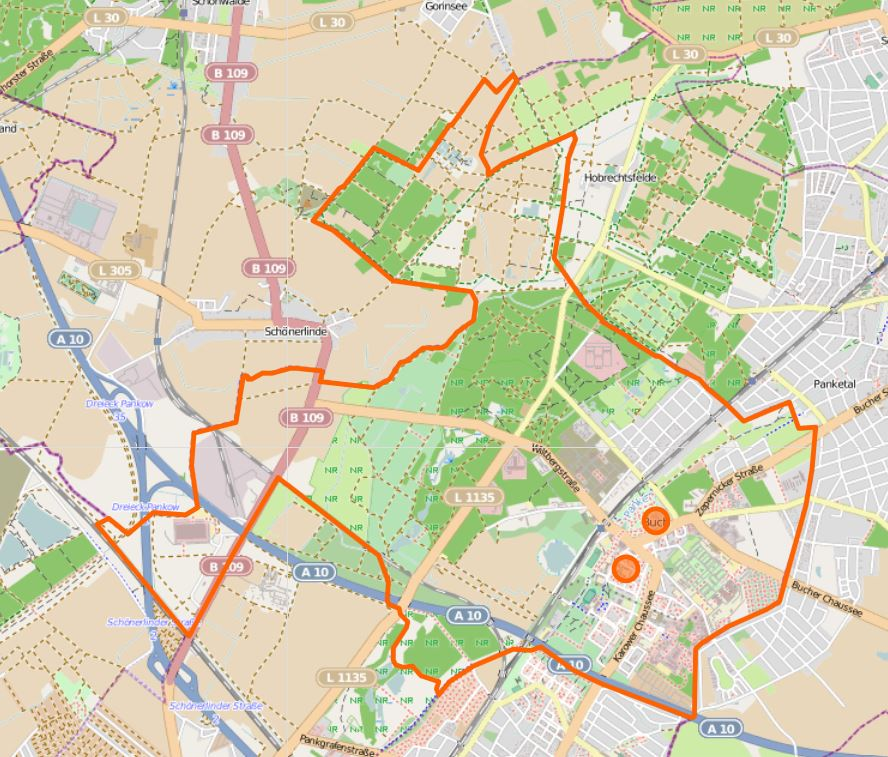 Berlin-Buch and vicinity